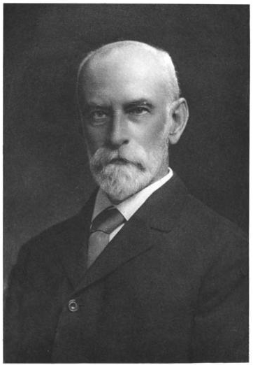 Portrait of Charles S. Minot